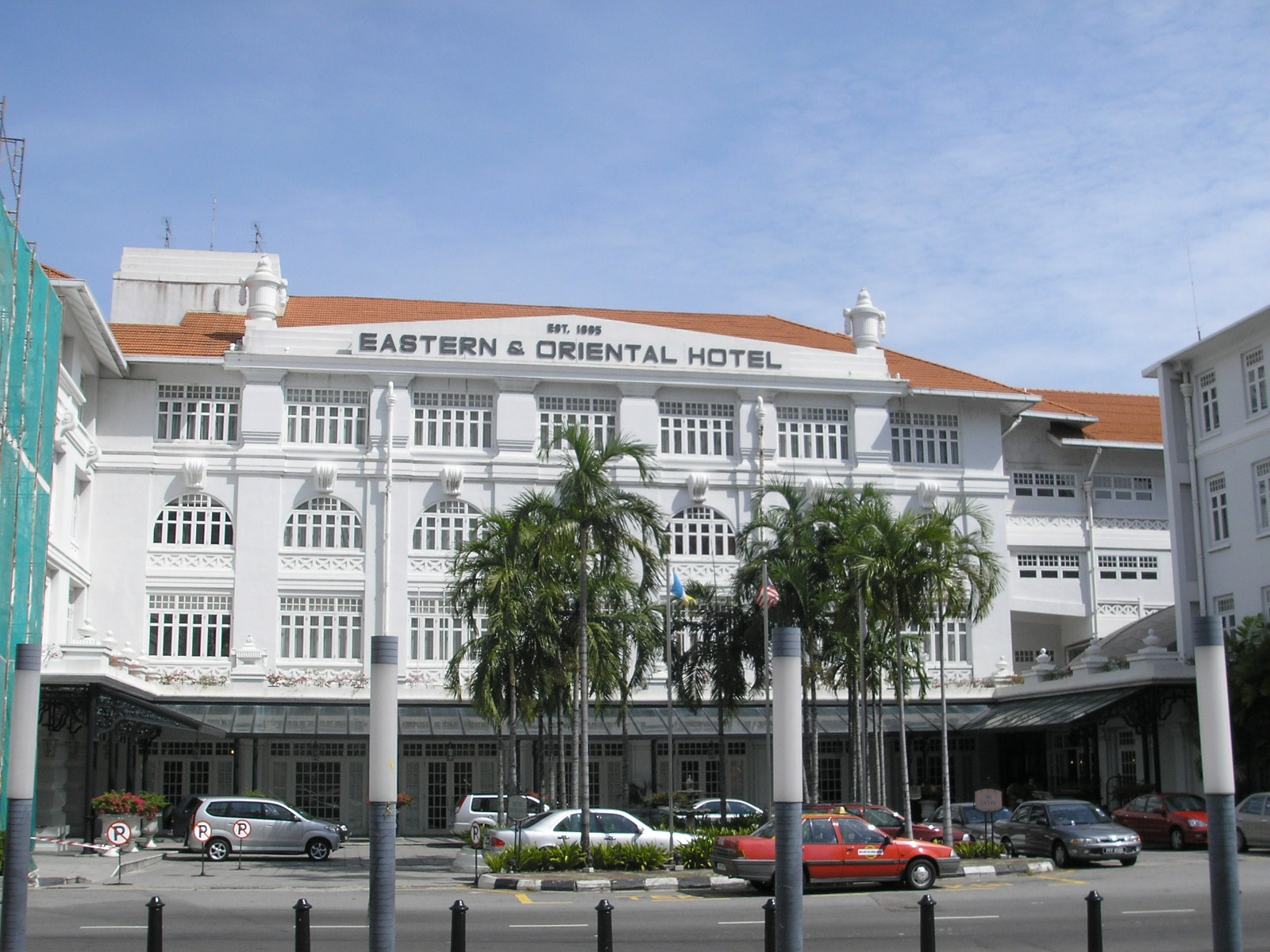 Image of the Eastern & Oriental Hotel in George Town, Penang.